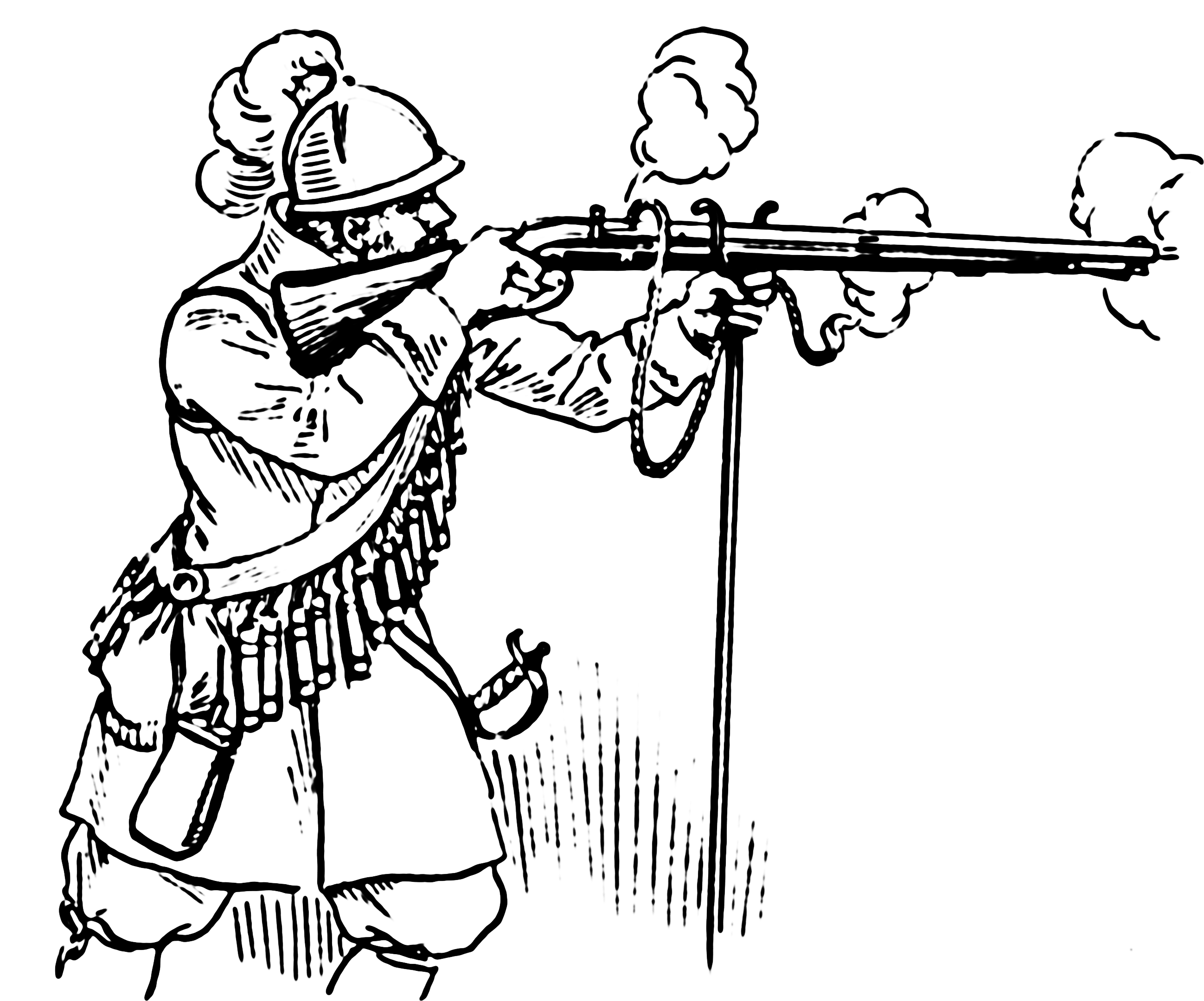 Line-art drawing of a soldier firing a harquebus.